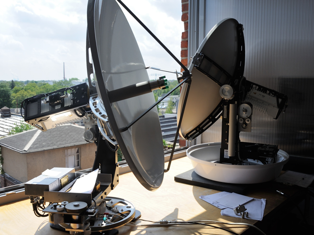 Maritime VSAT antennas